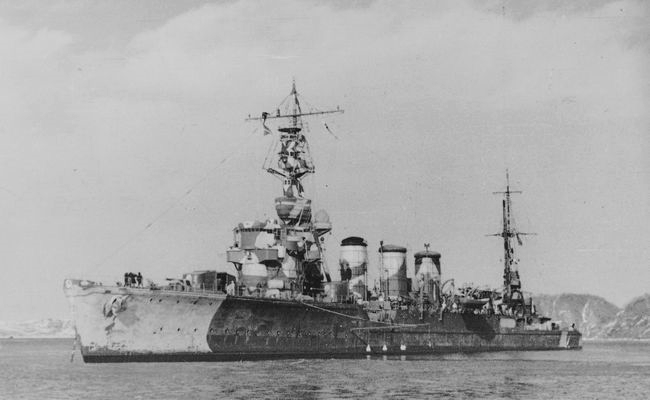 Japanese light cruiser Tama showing arctic camouflage during the Aleutians Campaign, 1942.